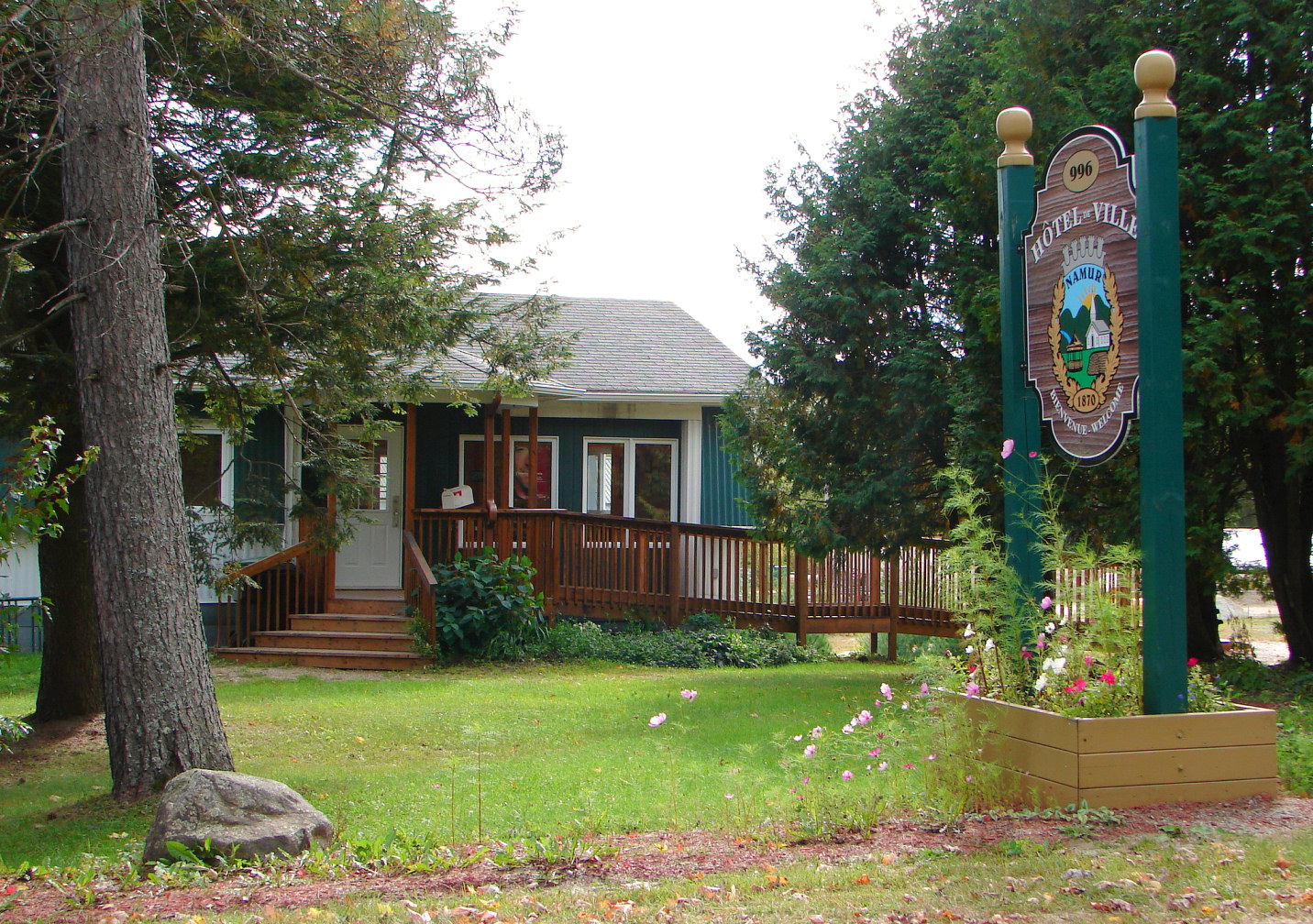 Municipal office of Namur, Quebec, Canada